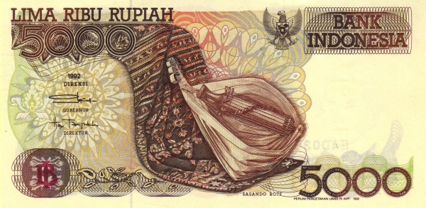 Indonesian currency issued 1976-2000.